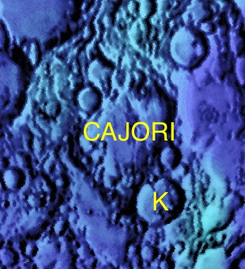 Part of the color-coded Lac 119 from USGS Digital Atlas used for the presentation